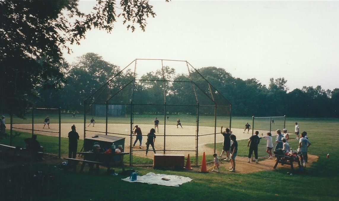 A game in the co-ed Exxon Intramural Softball League on Field 2 at the Exxon Research and Engineering campus in Florham Park, New Jersey in August 1996. The Defectors (dark blue shirts, in the field, comprised of players from HP (80%), SCO, and Novell who worked in a leased office building on the site) are playing Offbase (batting, on first base side, comprised of sometimes overseas Exxon personnel from computing, PCD, and Gas Treating and ECI). The Defectors won the game 26–2.